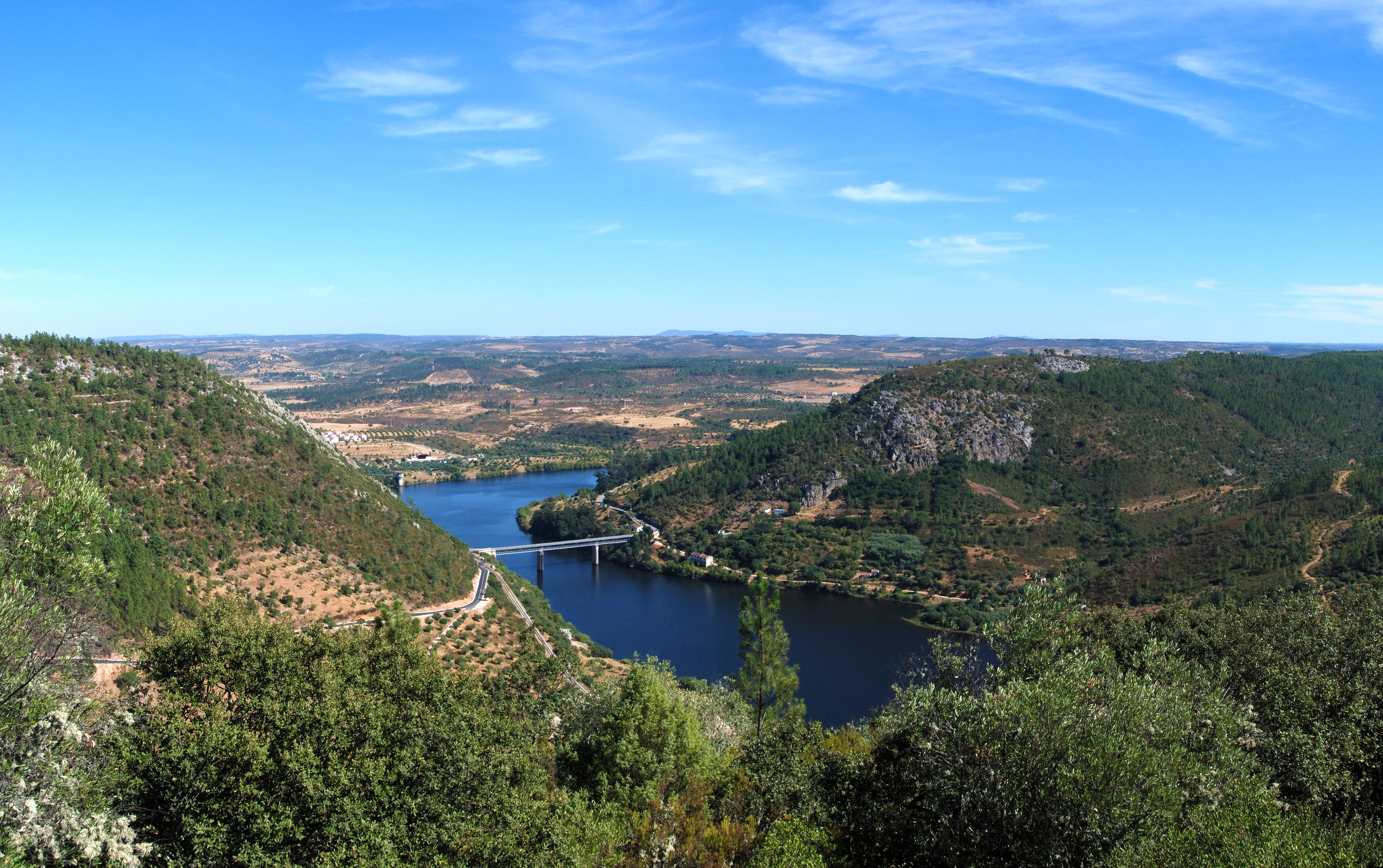 The Tagus River near Vila Velha de Rodão, Portugal